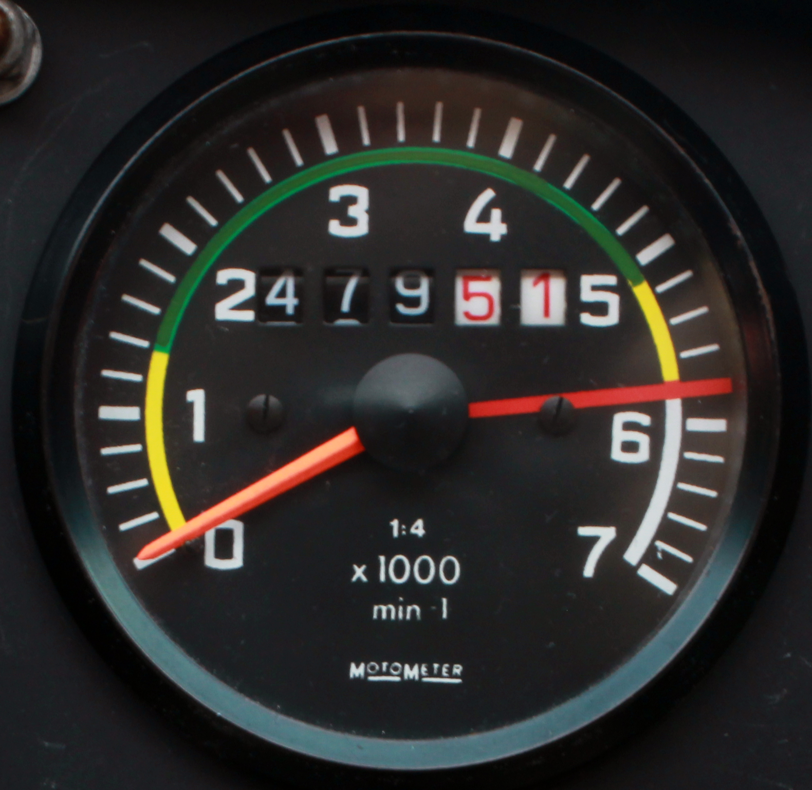 Motometer tachometer with flight length calculator in an M&D Flugzeugbau Samburo.